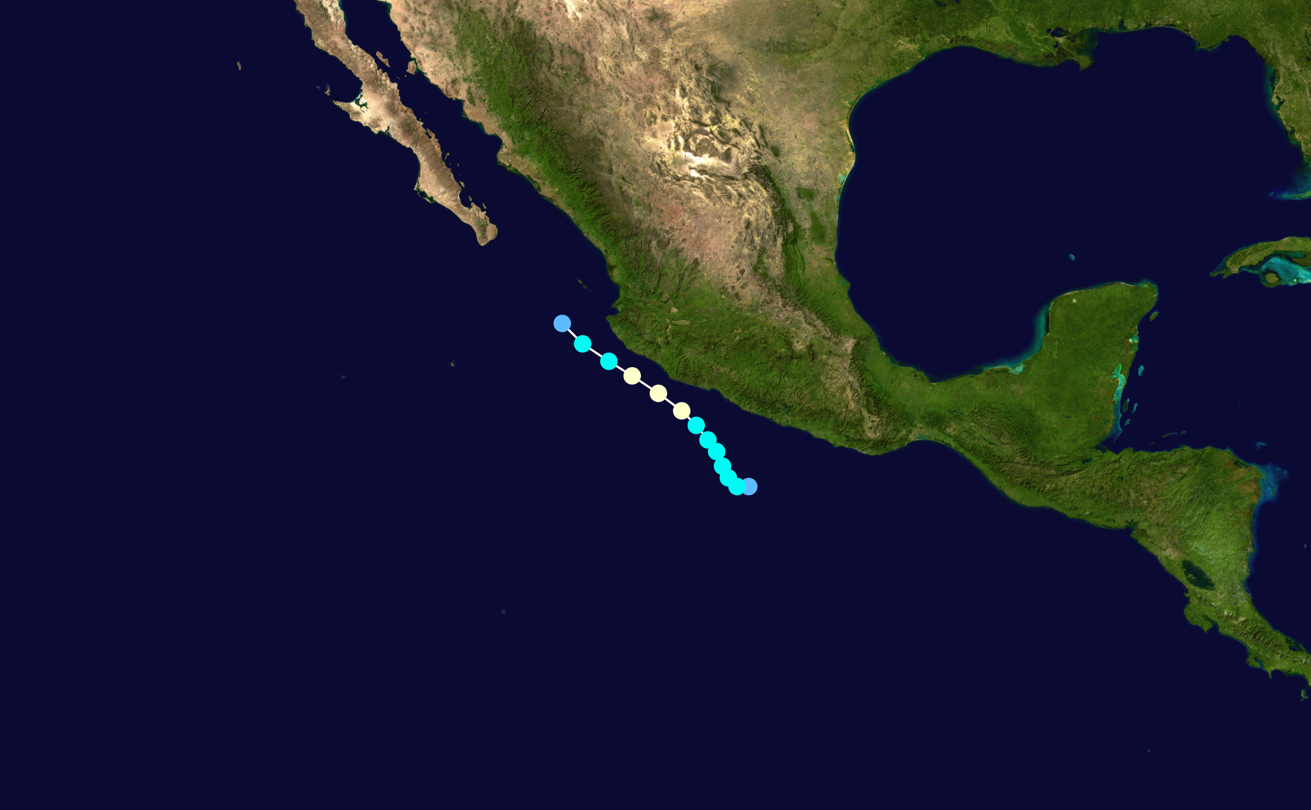 Track map of Hurricane Andres of the 2009 Pacific hurricane season. The points show the location of the storm at 6-hour intervals. The colour represents the storm's maximum sustained wind speeds as classified in the Saffir–Simpson scale (see below), and the shape of the data points represent the nature of the storm, according to the legend below. Saffir–Simpson scale Tropical depression≤38 mph≤62 km/h Category 3111–129 mph178–208 km/h Tropical storm39–73 mph63–118 km/h Category 4130–156 mph209–251 km/h Category 174–95 mph119–153 km/h Category 5≥157 mph≥252 km/h Category 296–110 mph154–177 km/h Unknown Storm type Tropical cyclone Subtropical cyclone Extratropical cyclone / Remnant low / Tropical disturbance / Monsoon depression